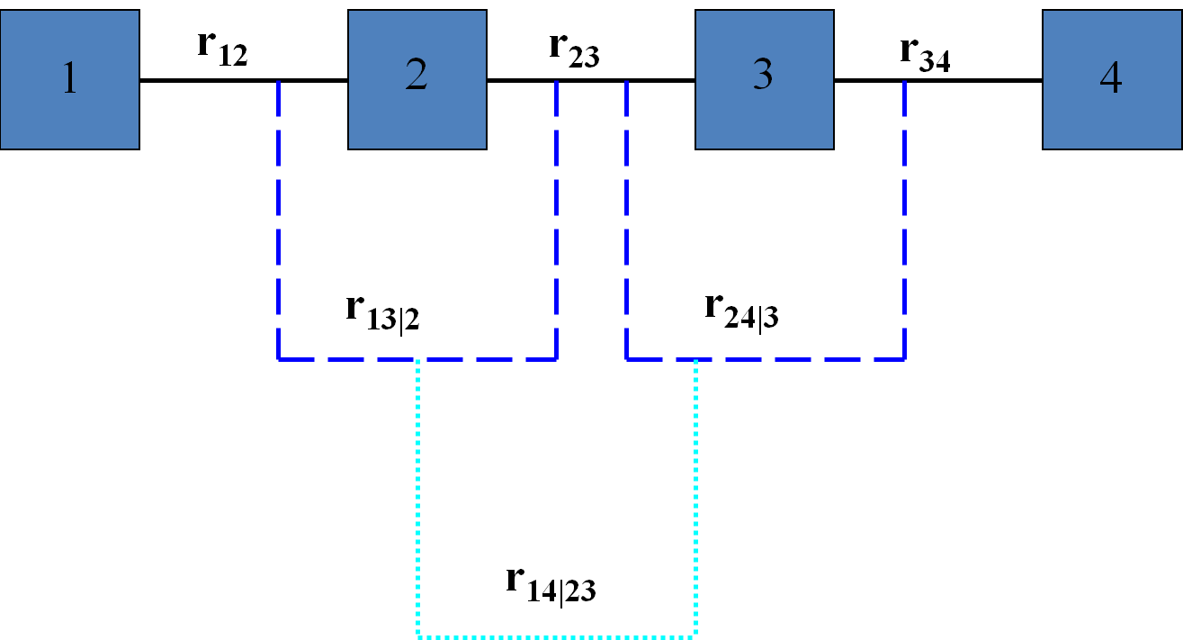 An example of a D-vine, on 4 variables (from probability theory)